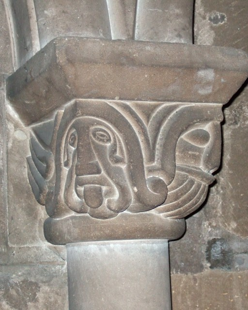 St Chad's church This cheeky chappie on the south side of the chancel is one of over a hundred carved heads, figures and creatures, most of which date from the C12th, that decorate the interior of this church. The west end and much of the exterior of St Chad is a C19th restoration by G Gilbert Scott, but its heart is Norman.